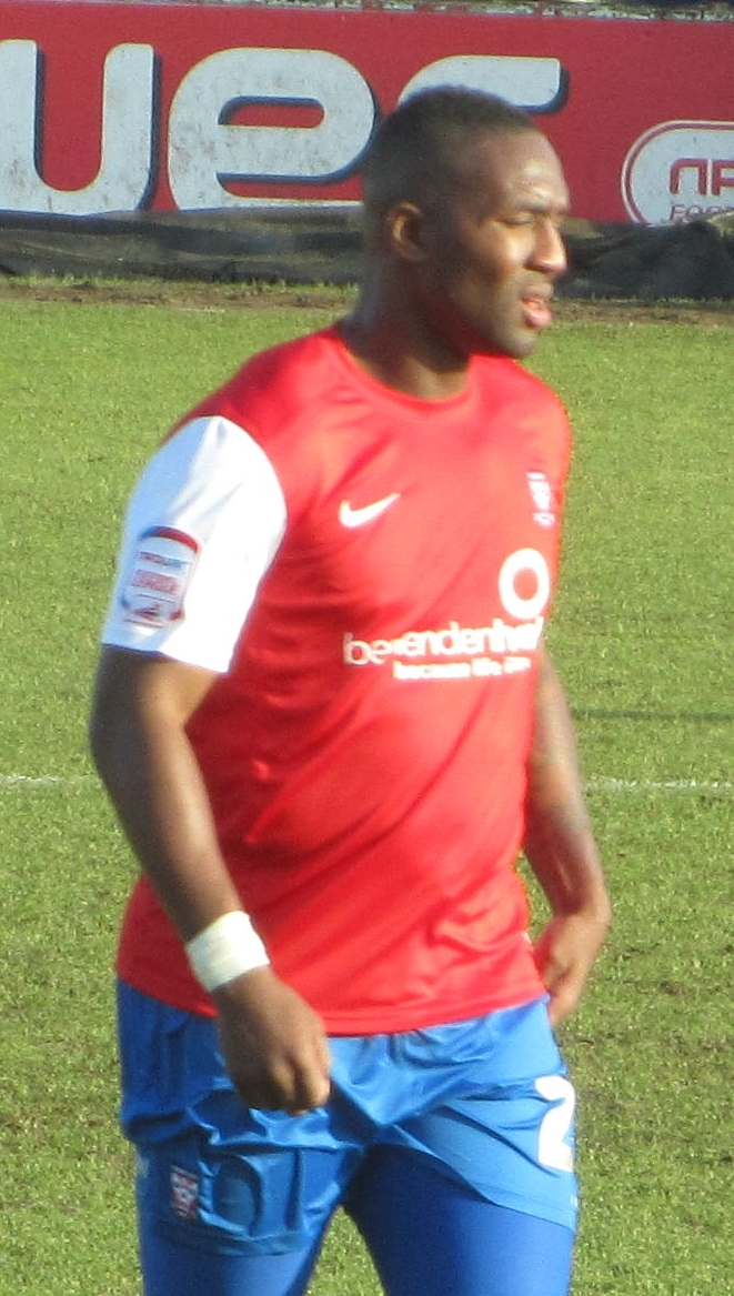 Michael Rankine playing for York City against Barnet at Bootham Crescent, York on 16 February 2013